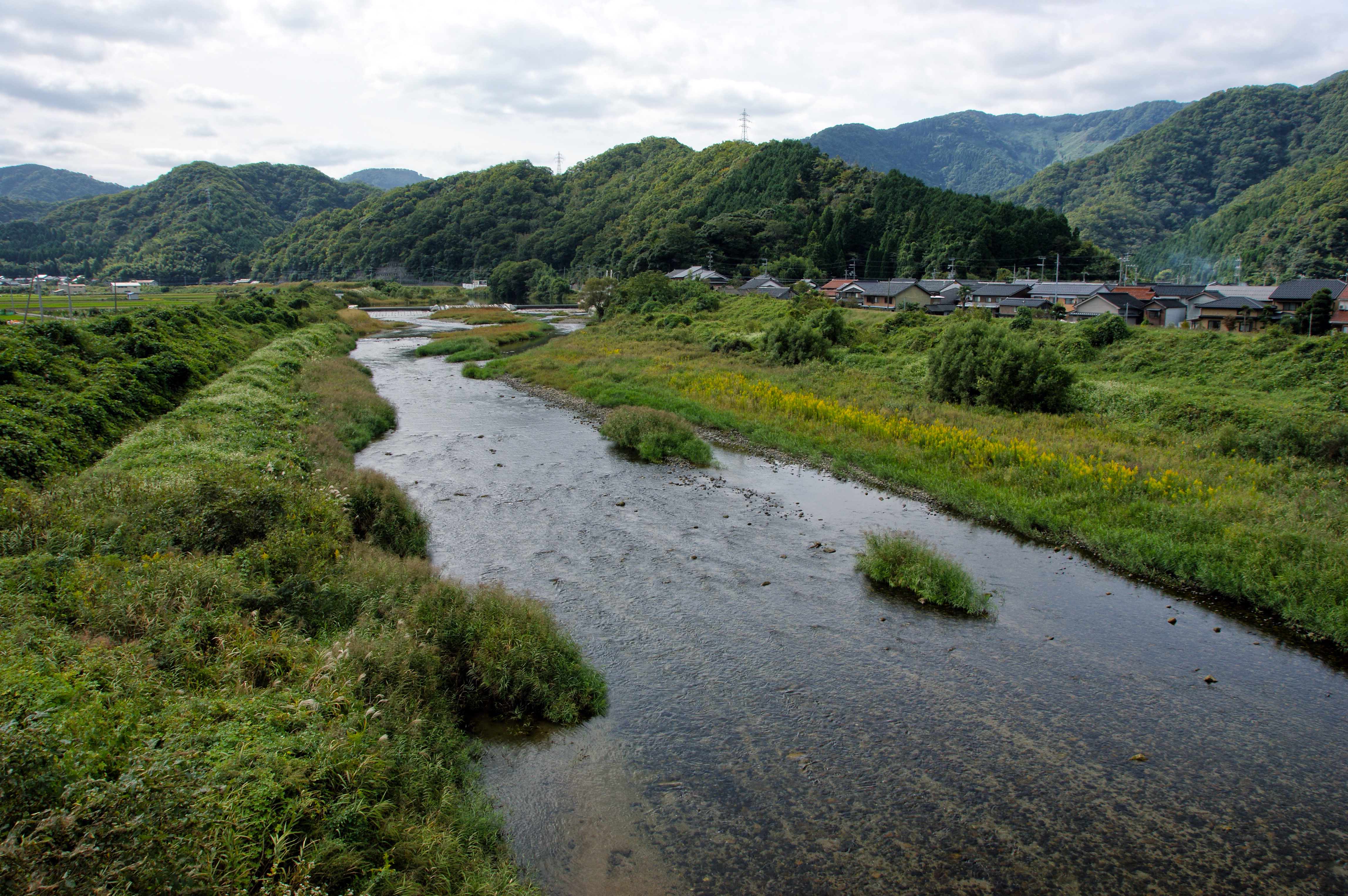 Kishida River and Shichikama Onsen of Hamasaka Onsenkyo in Shinonsen, Hyogo prefecture, Japan.